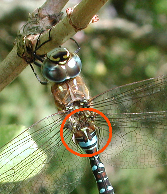 Aeshna mixta, male. Detail: Characteristic T-shaped white marking of the species on first abdominal segment.